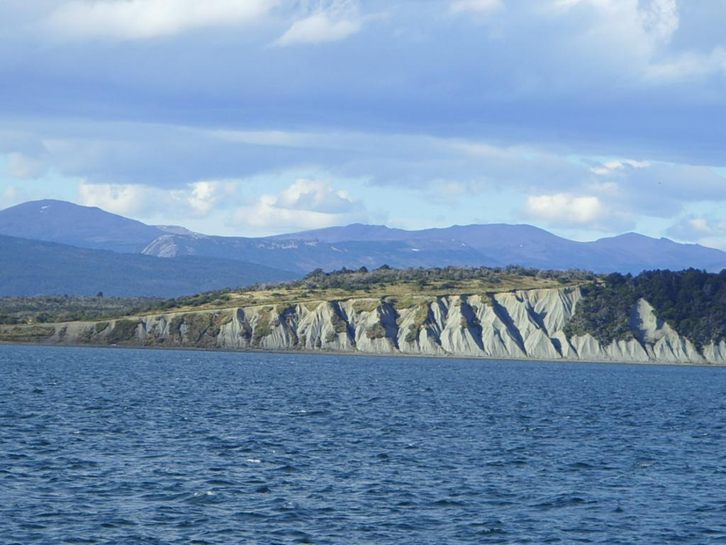 Coast of Gable Island in Beagle Channel, Tierra del Fuego, Argentina